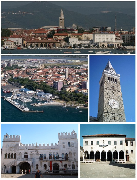 landmarks of Koper/Capodistria/Caput'd'Histrae